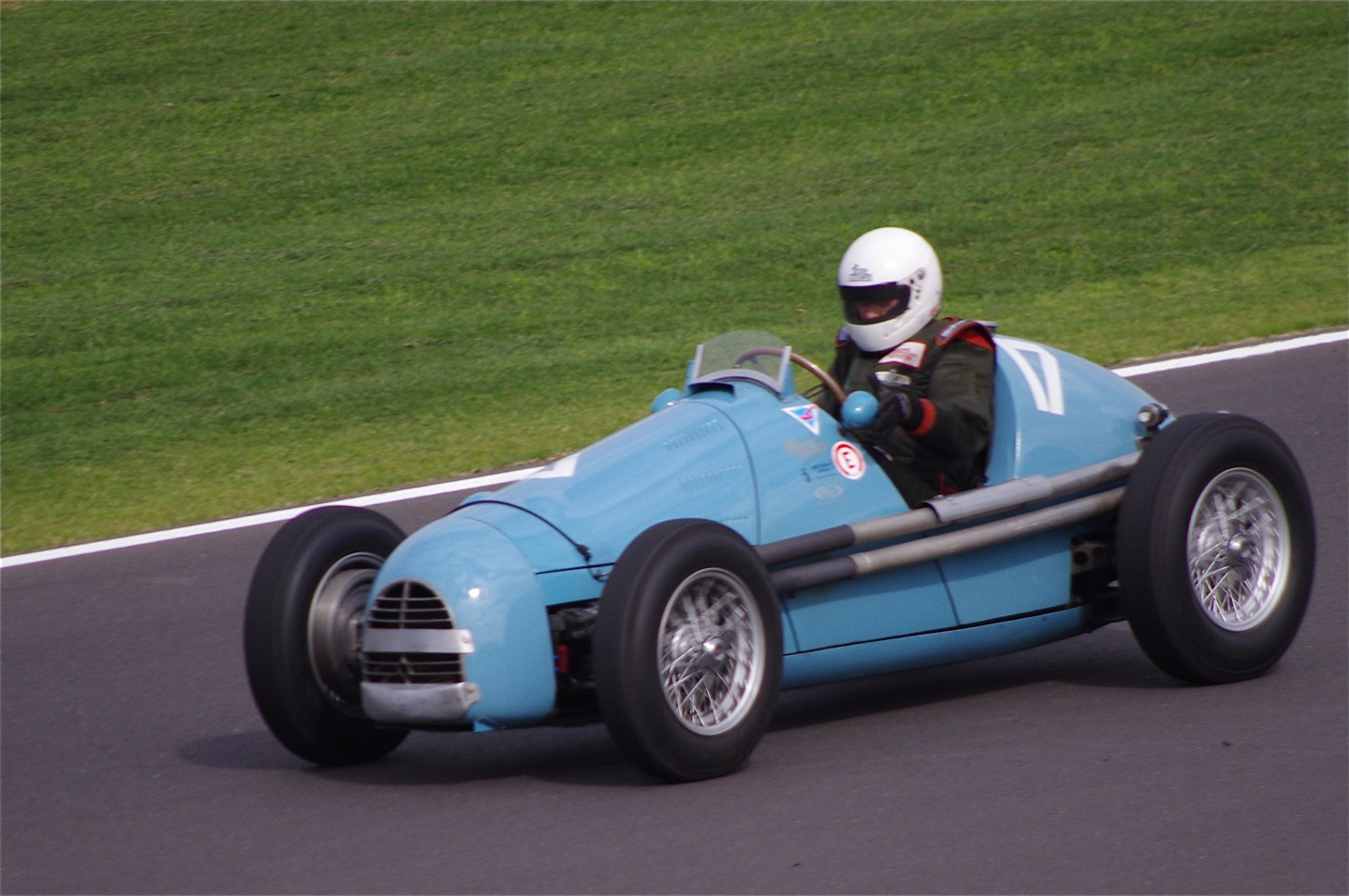 Silverstone Classic 2011